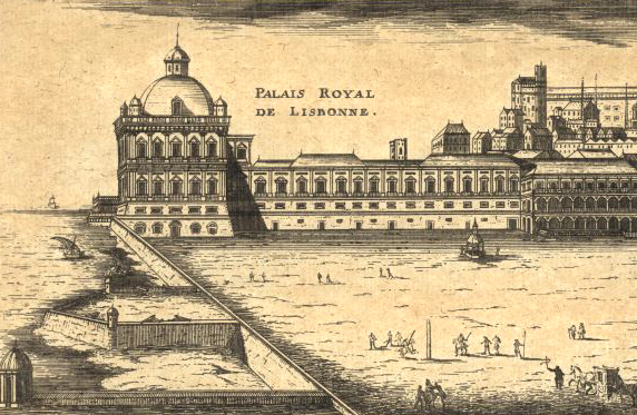 View of the Ribeira Palace in Lisbon, Portugal.